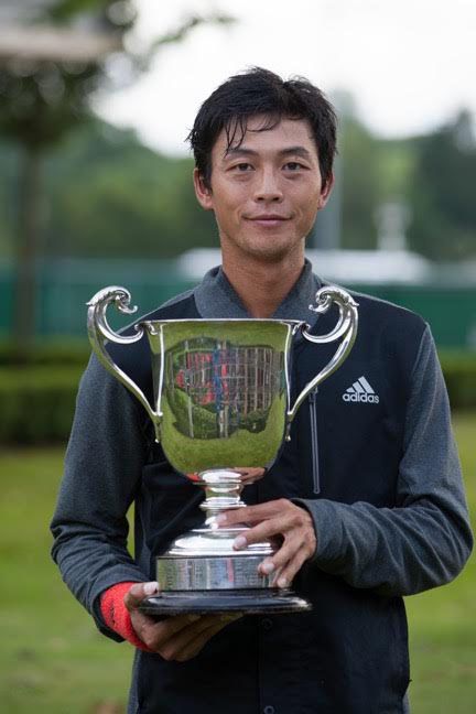 Lu Yen-hsun takes men’s title at the Aegon Surbiton Trophy 2016